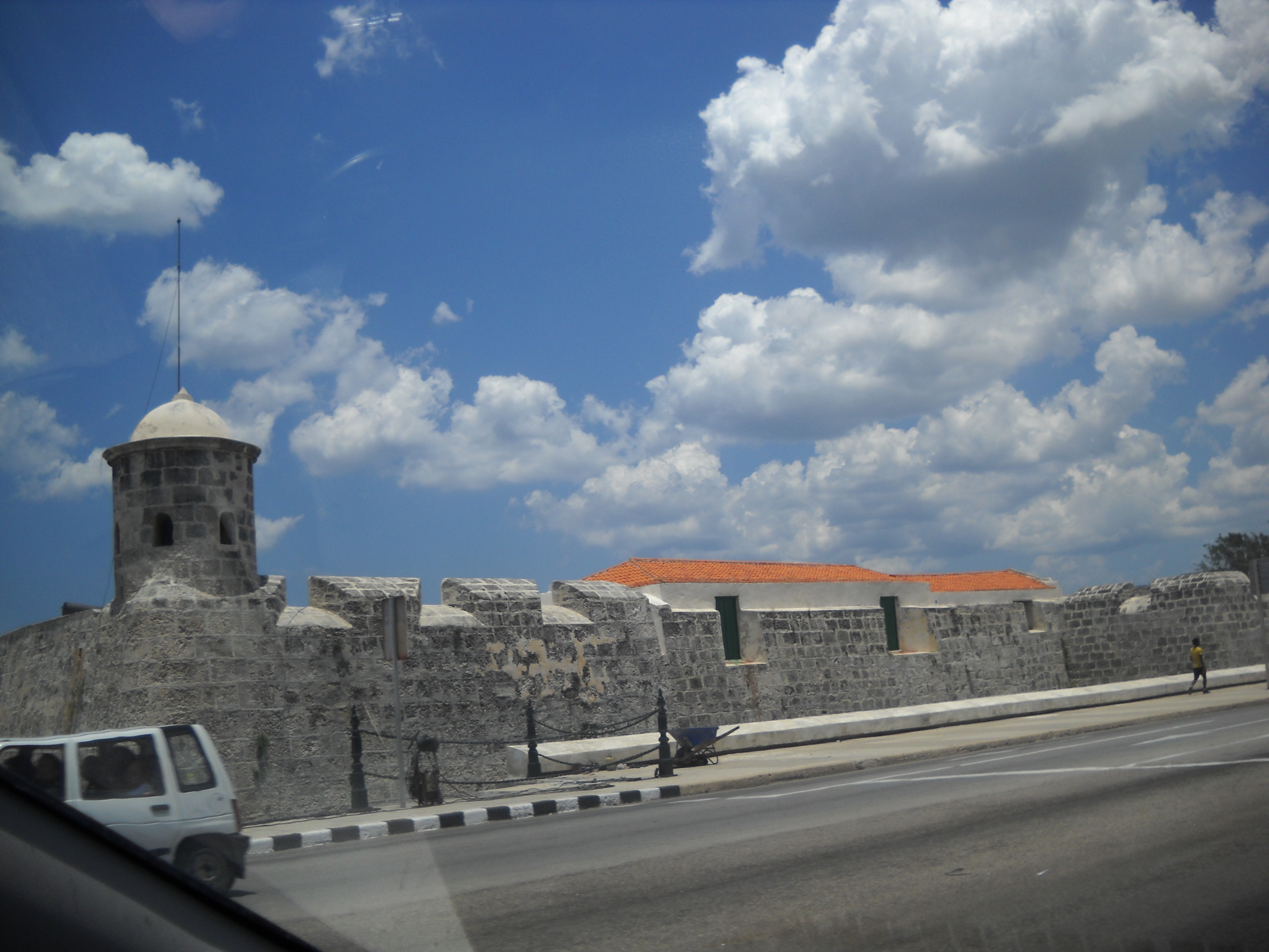 San Salvador de la Punta Fortress